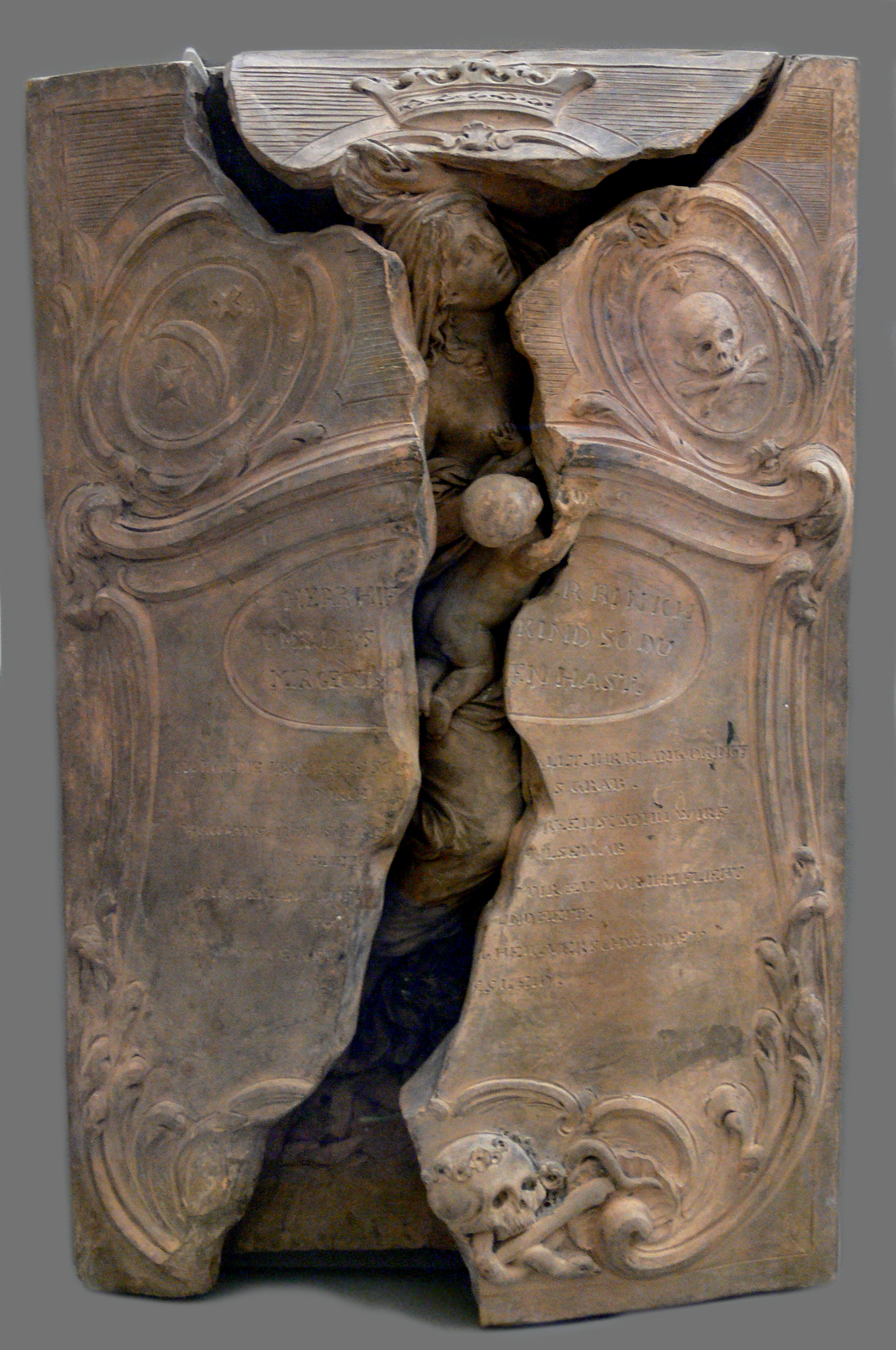 Johann Valentin Sonnenschein: Resurrection of Maria Magdalena Langhans with her child, c. 1780 (terracotta reproduction of the tomb created by Johann August Nahl the Elder in 1751). Skulpturensammlung (Inv. no. 33/73, acquired in 1973), Bode-Museum Berlin.